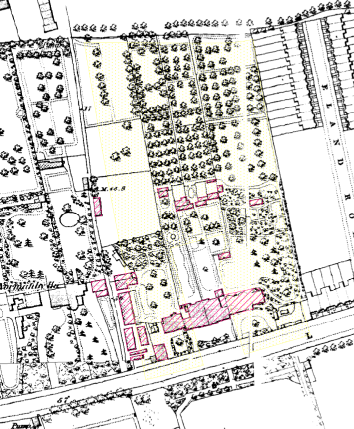 OS map of Lavender Hill, Battersea, London, in the 1869-1874 period